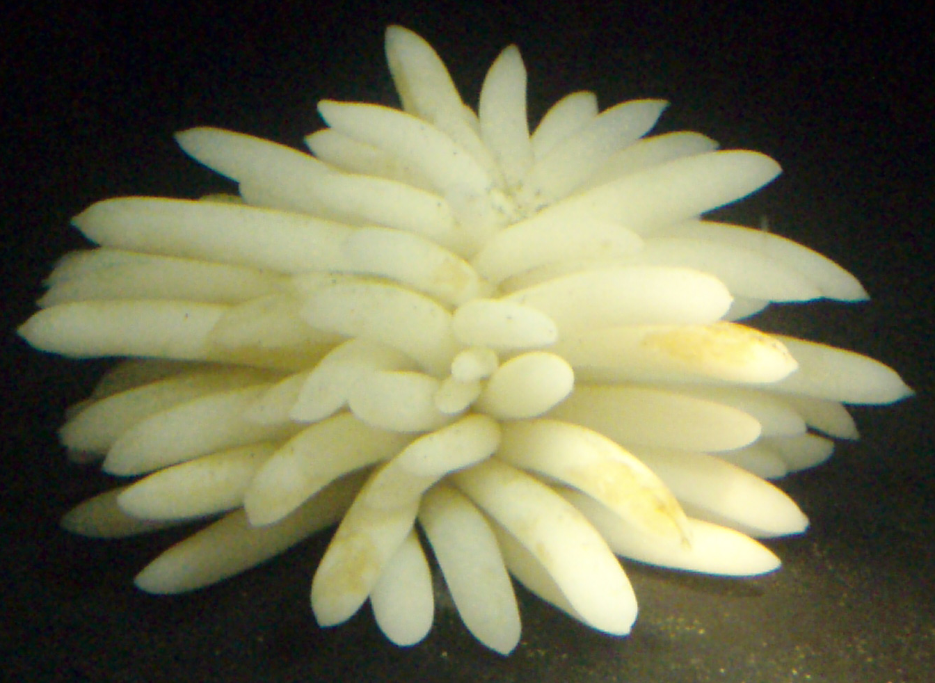 Picture of a clutch of squid egg (species type unfortunately not specified) cases on display at the Monterery Aquarium. Photographed on April 2, 2007.